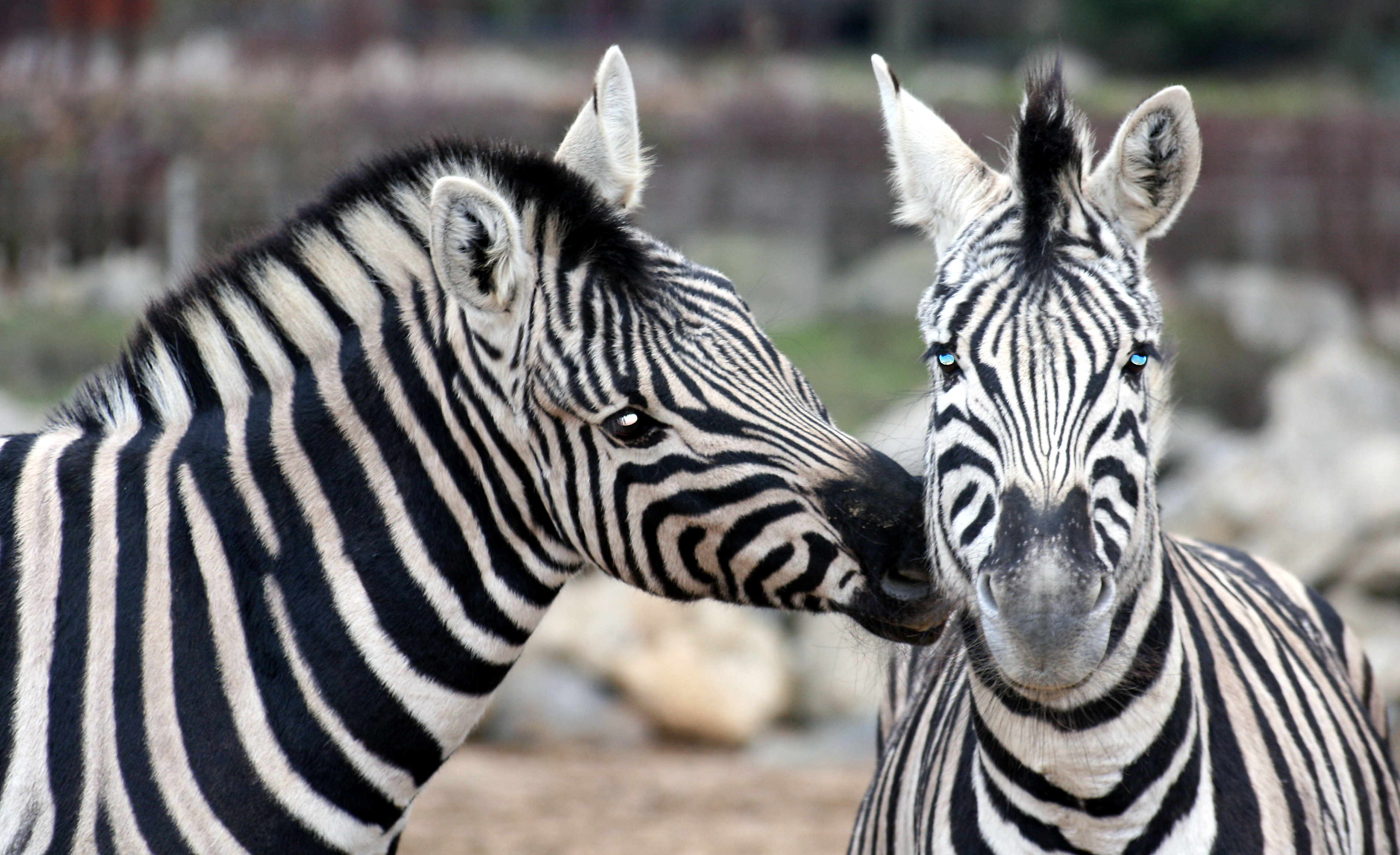 Zebra - Colchester Zoo - Colchester, Essex, England - Monday November 19th 2007.